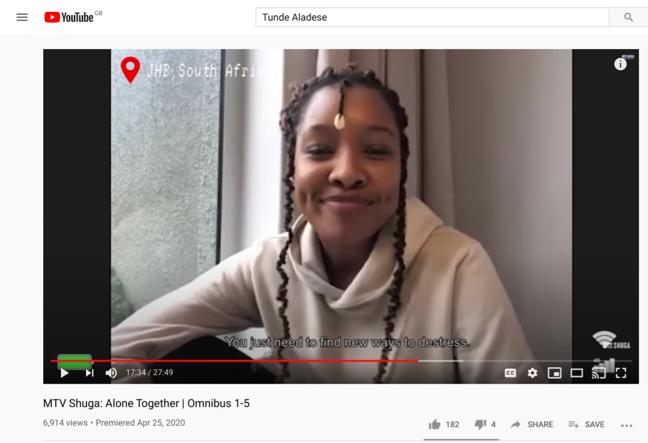 Mamarumo Marokane and Lerato Walaza from MTV Shuga series 7